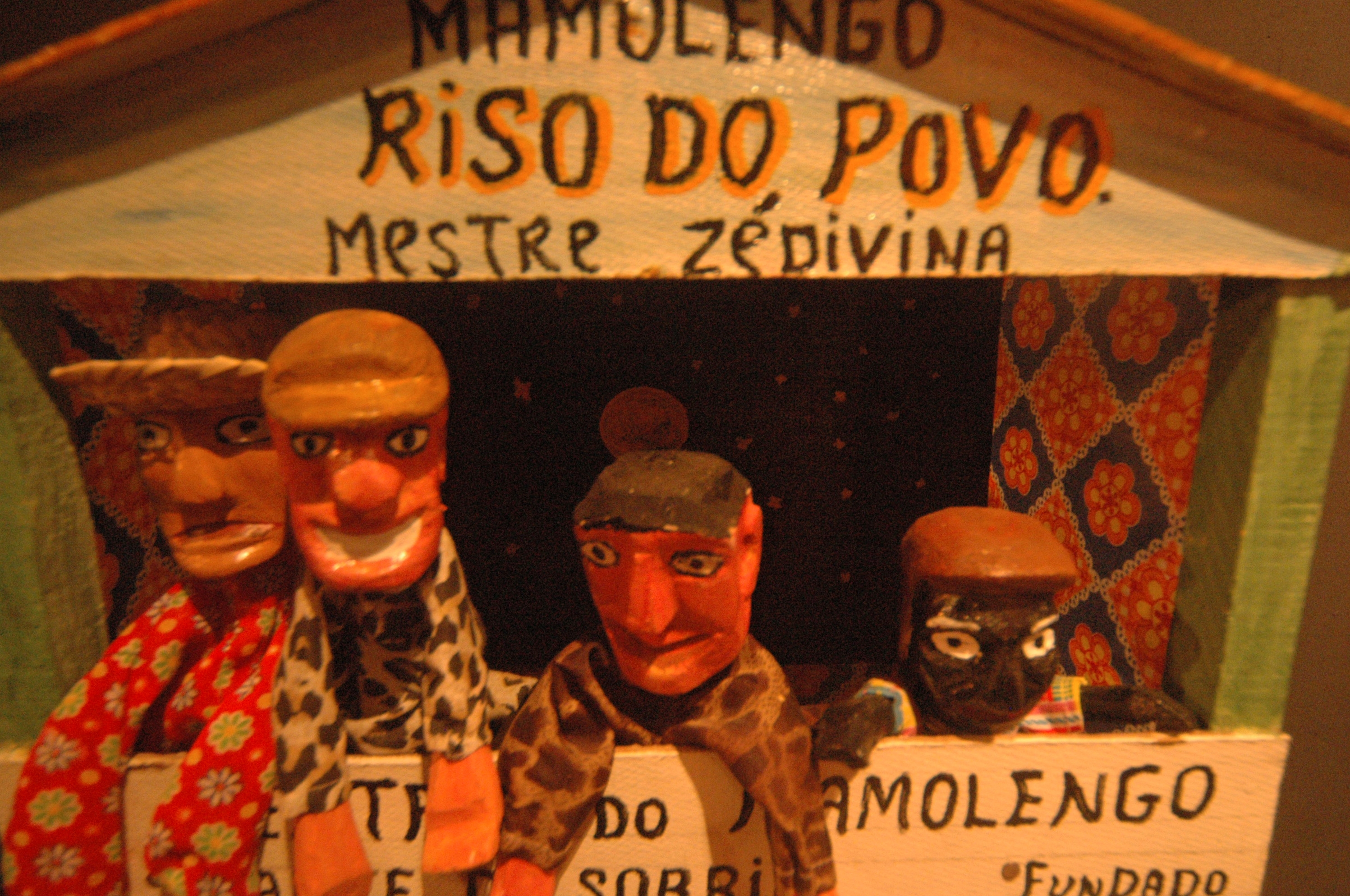 Museum of Mamulengo antique puppets and stage in Olinda, Brazil. Mamulengo is a traditional puppet theatre originating in North East Brazil.